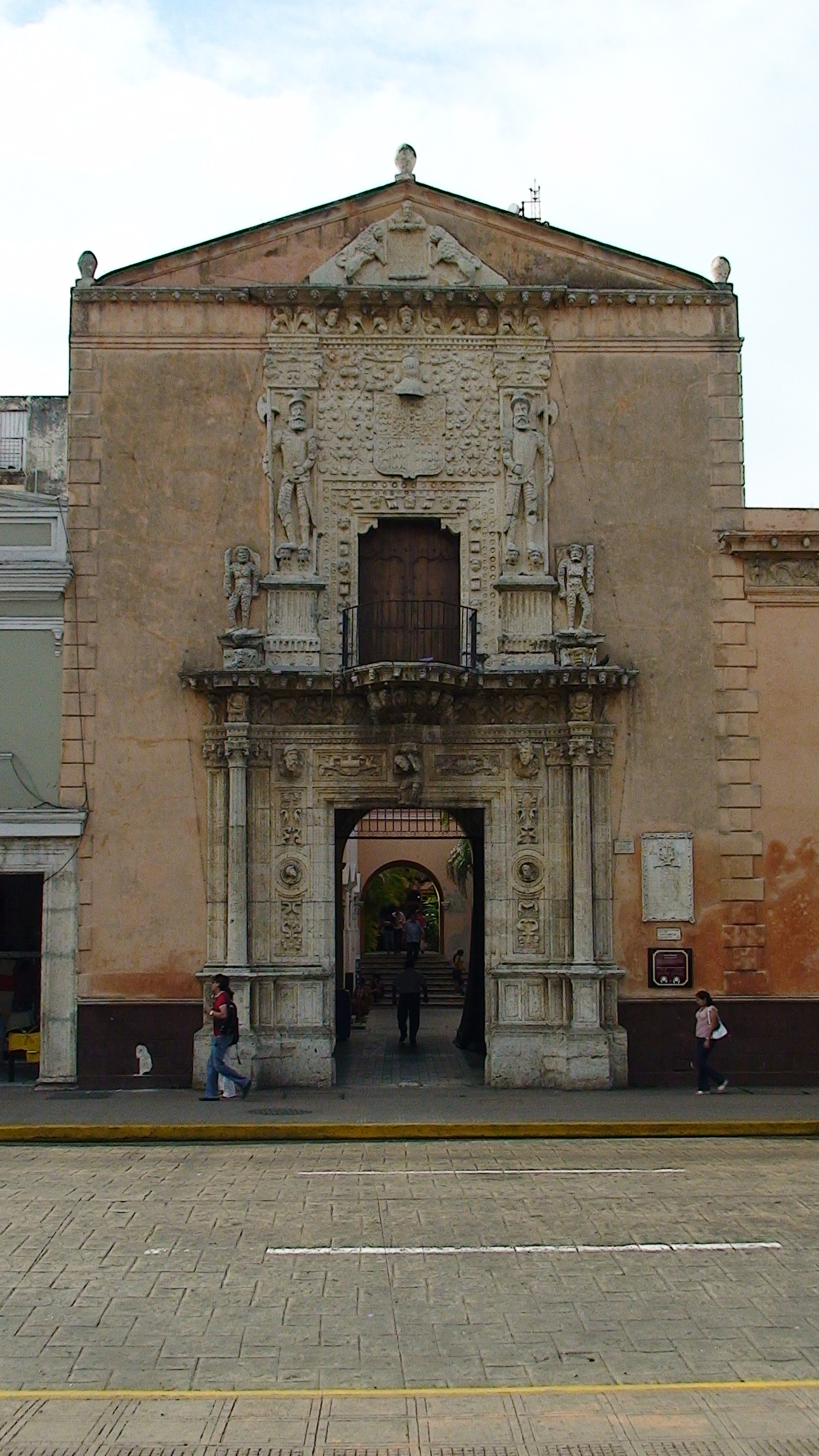 Casa de Monjeo, main square, Mérida, Yucatan, Mexico